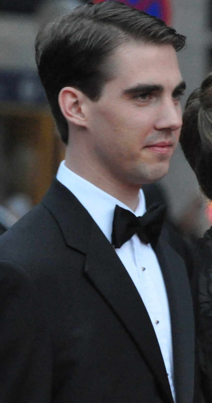 Wedding of Victoria, Crown Princess of Sweden, and Daniel Westling; Arrival of members for the Gouvernment and Swedish and foreign guests of hounour to the Riksdag's Gala Performance at Konserthuset. Rosario Nadal of Bulgaria?